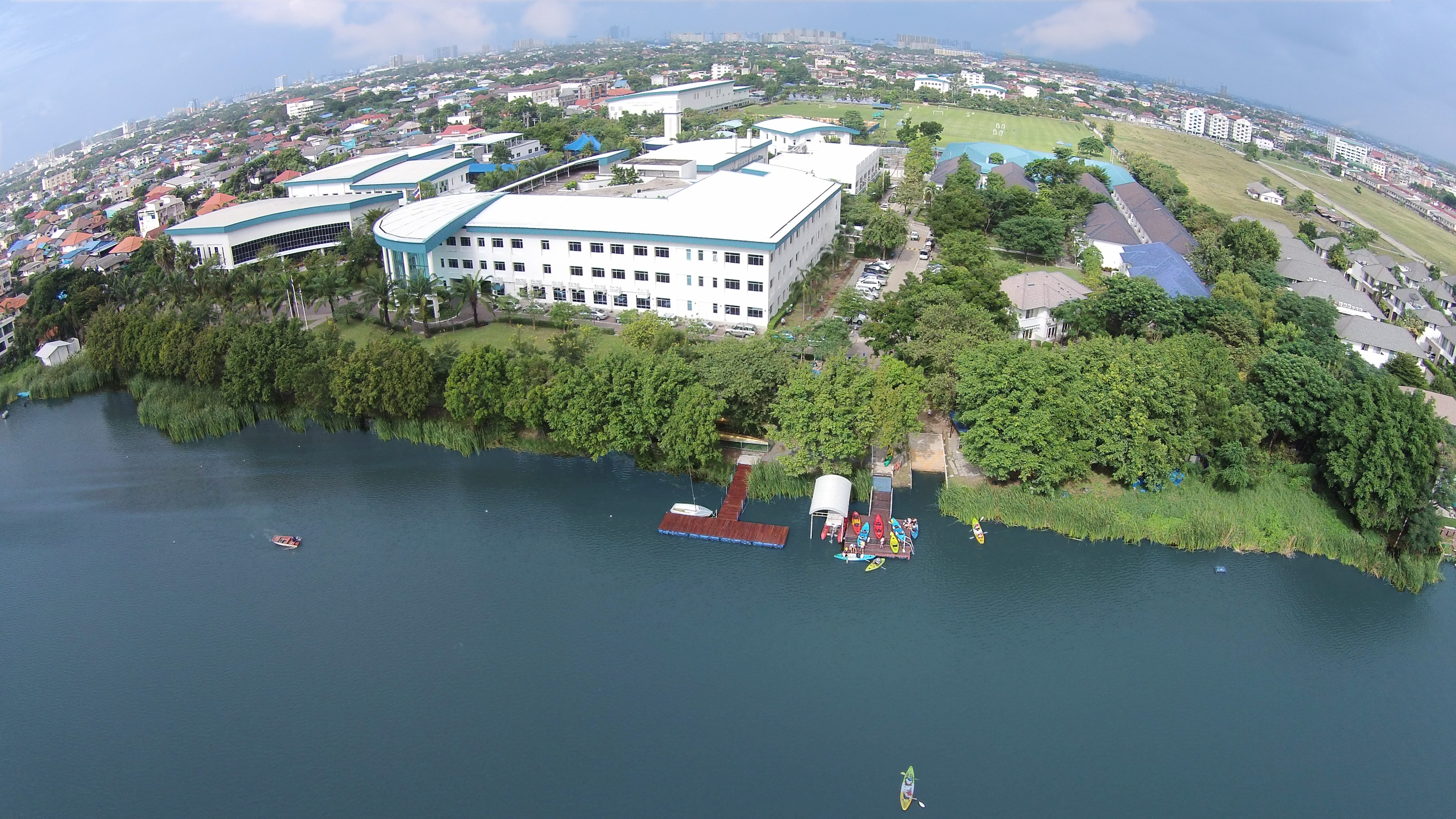 Aerial View of Harrow Bangkok